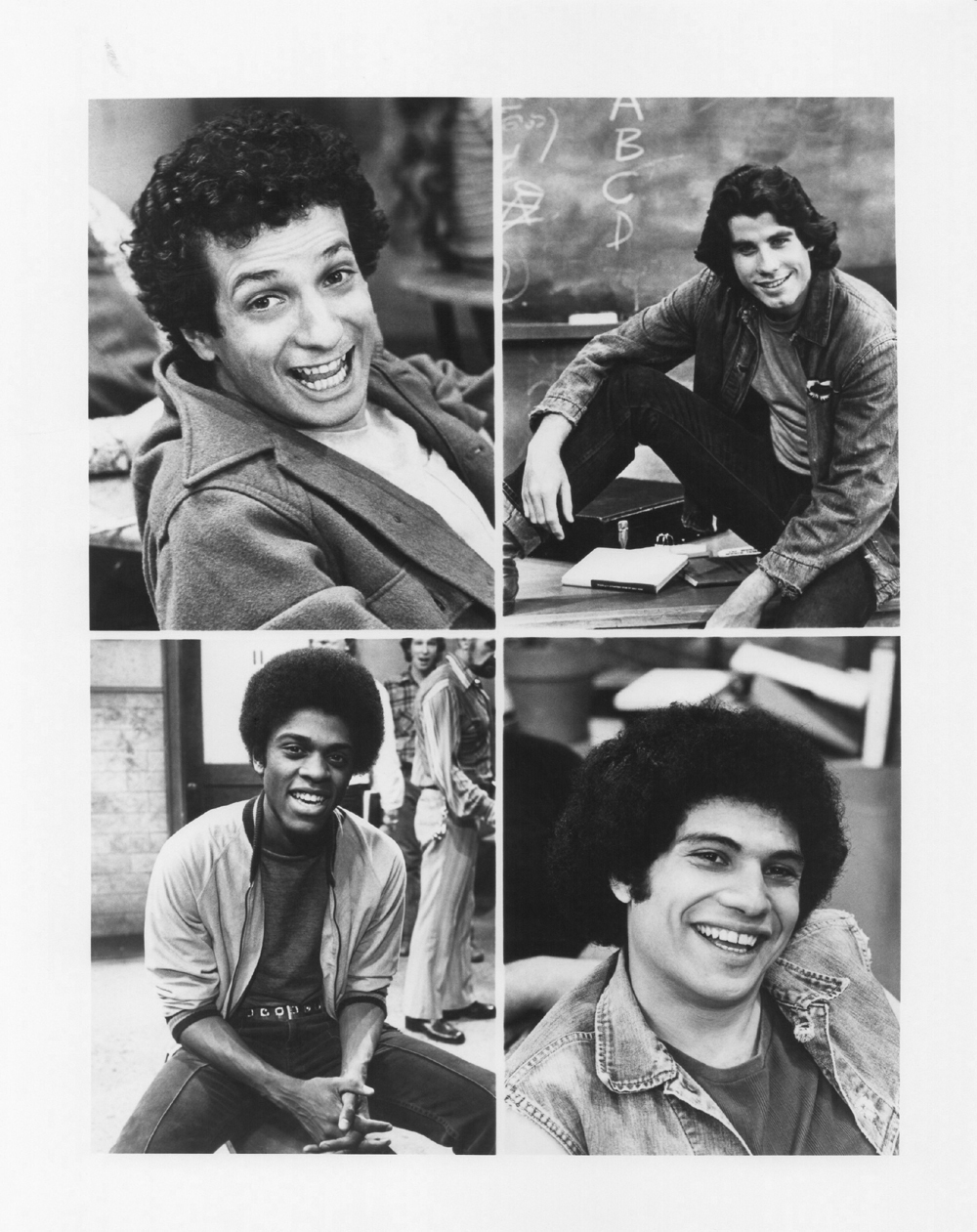 Composite publicity photo of American actors; (Top; L–R) Ron Palillo, John Travolta, (Bottom; L—R) Lawrence Hilton-Jacobs and Robert Hegyes promoting their roles on the ABC television series Welcome Back, Kotter.